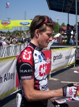 Fijiman took the picture himself 2006 Tour de Georgia Stage 6 03:36, 25 April 2006 Fijiman 254x343 (34667 bytes) (Took the picture myself 2006 Tour de Georgia Stage 6)